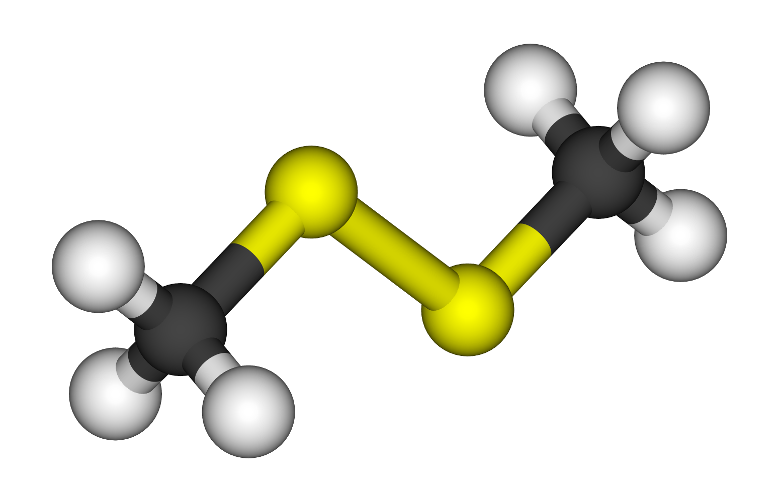 Dimethyl disulfide